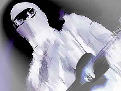 Blackhouse